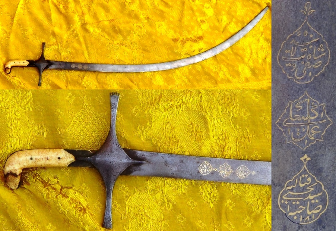 Sword of Shah Safi of Persia